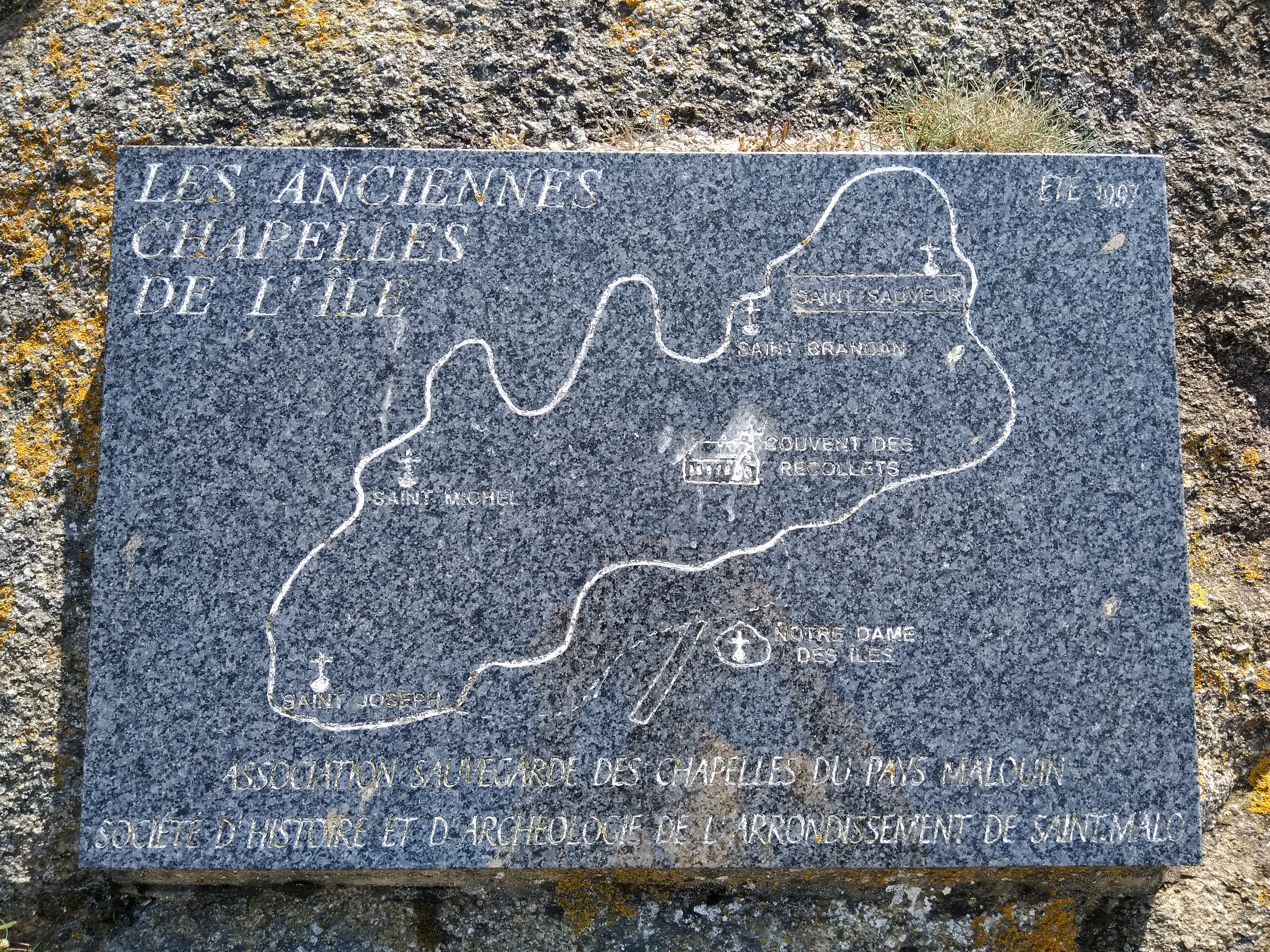 Map of the former chapels on Cézembre island (off Saint Malo, France).